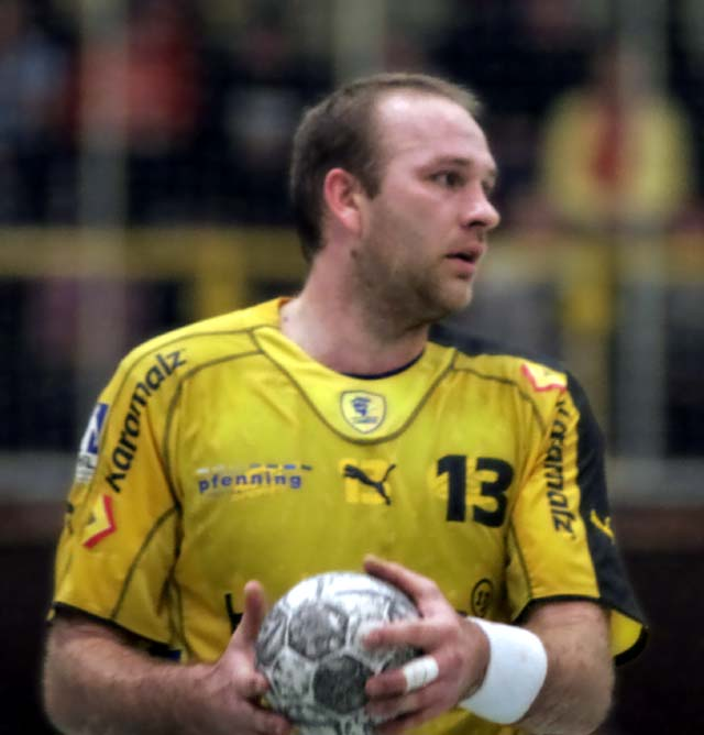 Mariusz Jurasik, on November 28th 2006 in the Weststadt Hall in Bensheim (Germany), during the game SG Kronau-Östringen - TuS Nettelstedt-Lübbecke.